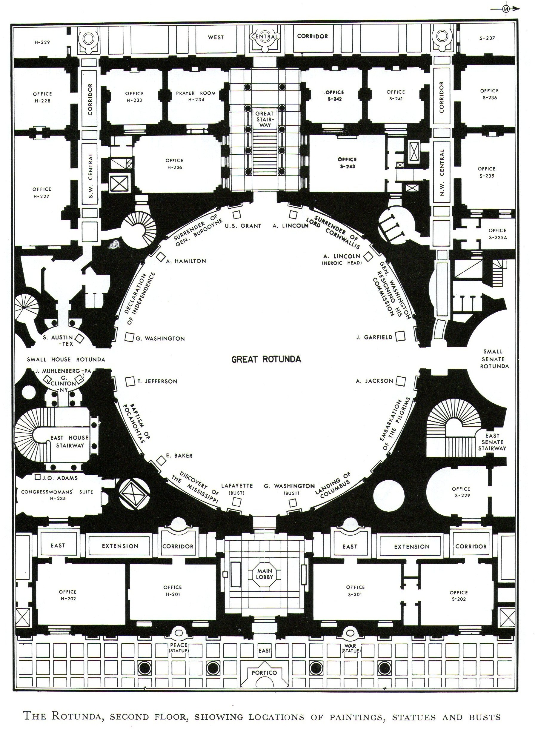 Floor plan of the central area of the U.S. Capitol building around the Rotunda. The caption to this image in the source book states: "The Rotunda, second floor, showing locations of paintings, statues and busts". North is to the left (the Senate wing); the upward direction is west, toward the Mall; south is to the right (the House of Representatives wing); down is to the east (toward the Visitors Center, the Supreme Court building and the Library of Congress building).